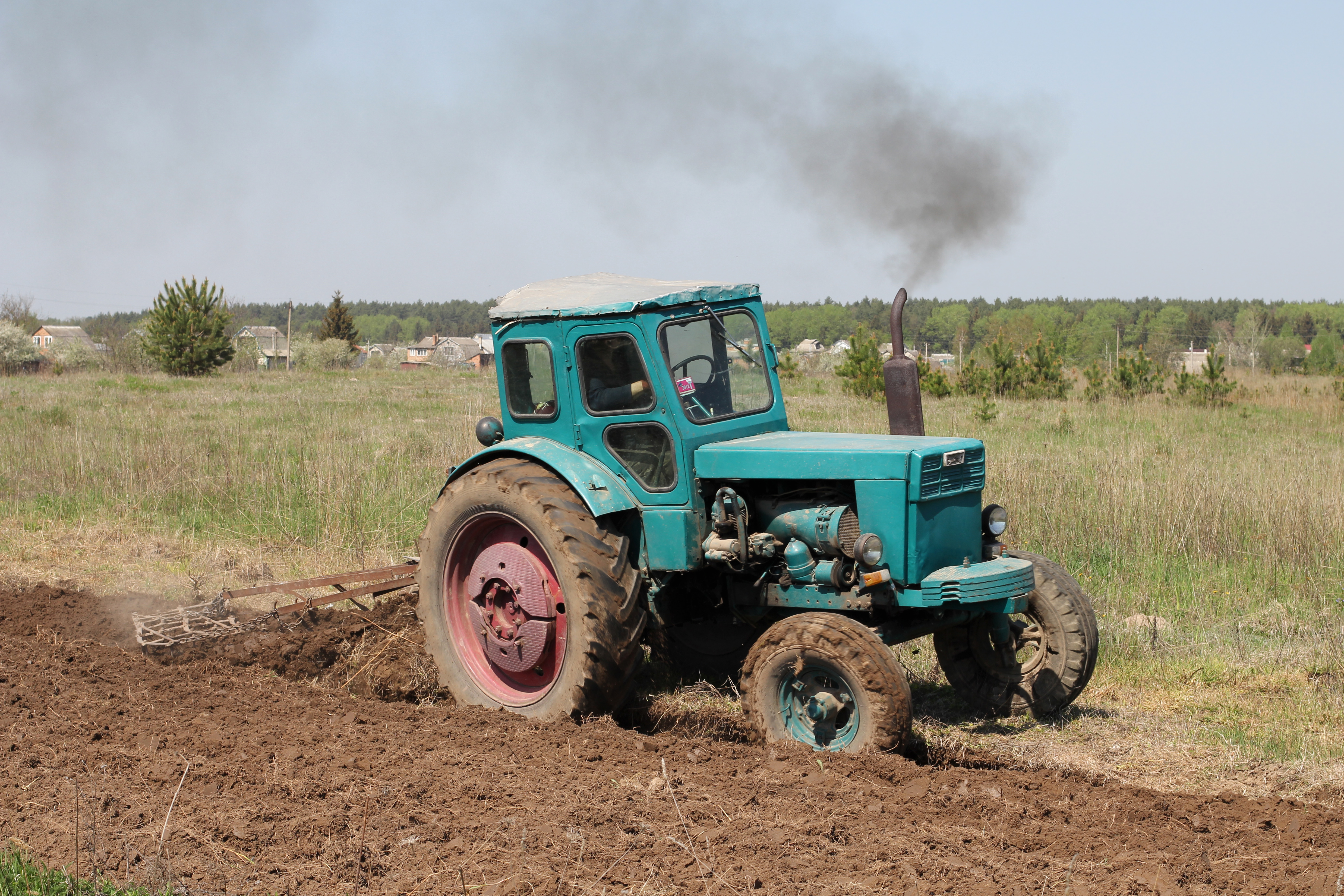 T-40A tractor. Plowing in spring. Photo taken in settlement Slavnoe near Vinnitsa, Ukraine.